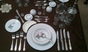 Soup Plate on Liner with Soup Spoon